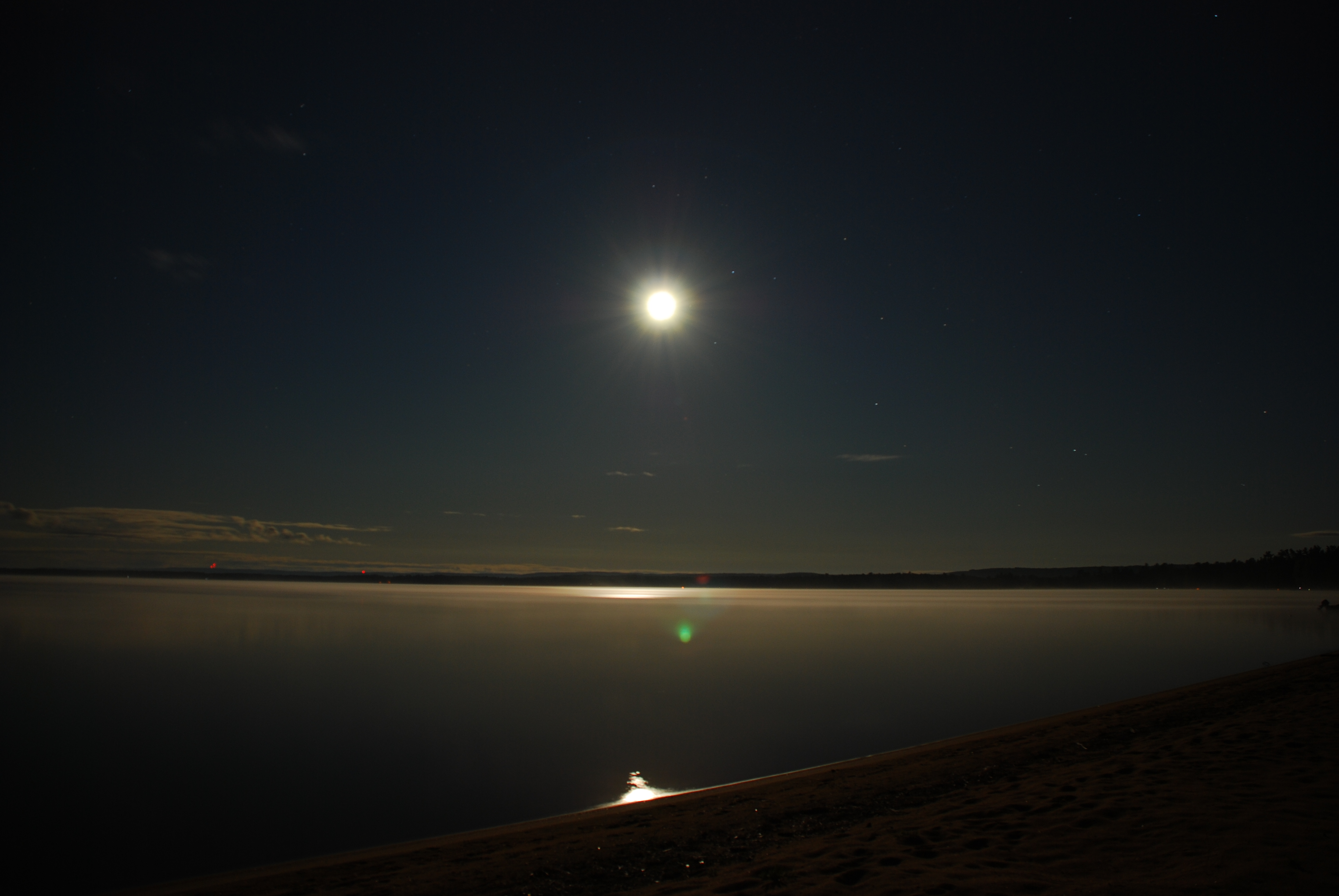 Taken early morning as the moon is rising over the shore of Round Lake just south of Algonquin park in Ontario, Canada.